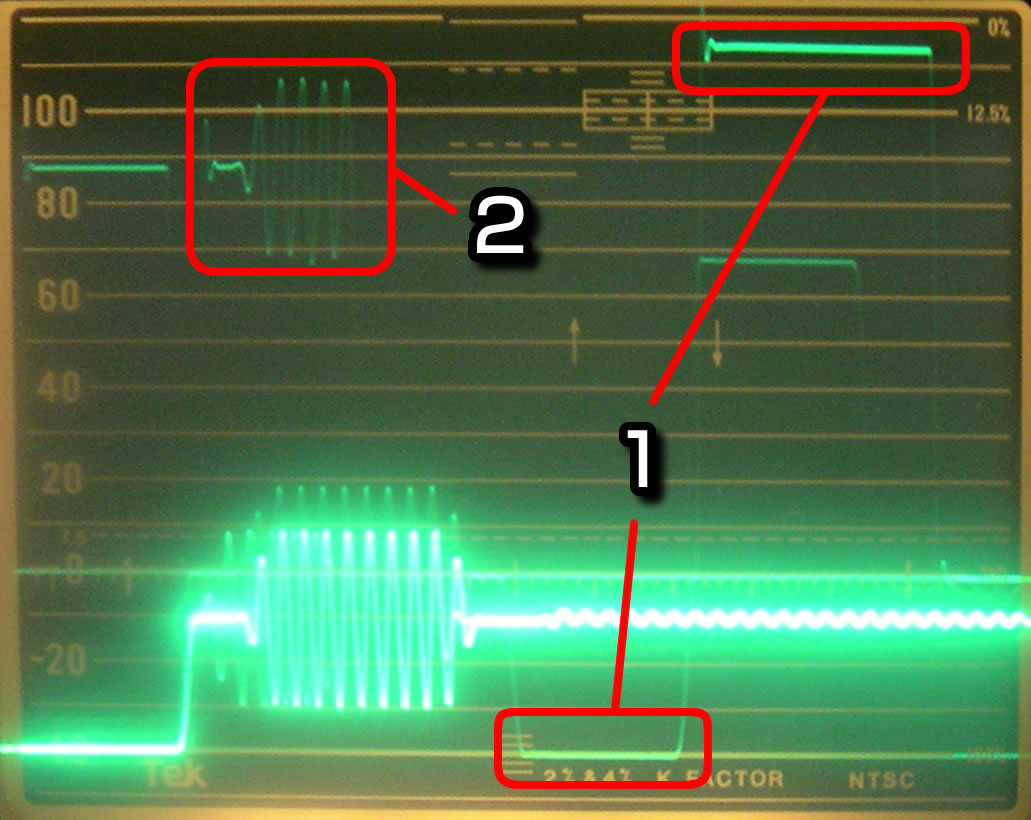 Macrovision Copyguard in Wave Form Monitor, 1: Macrovision, 2: Color Stripe